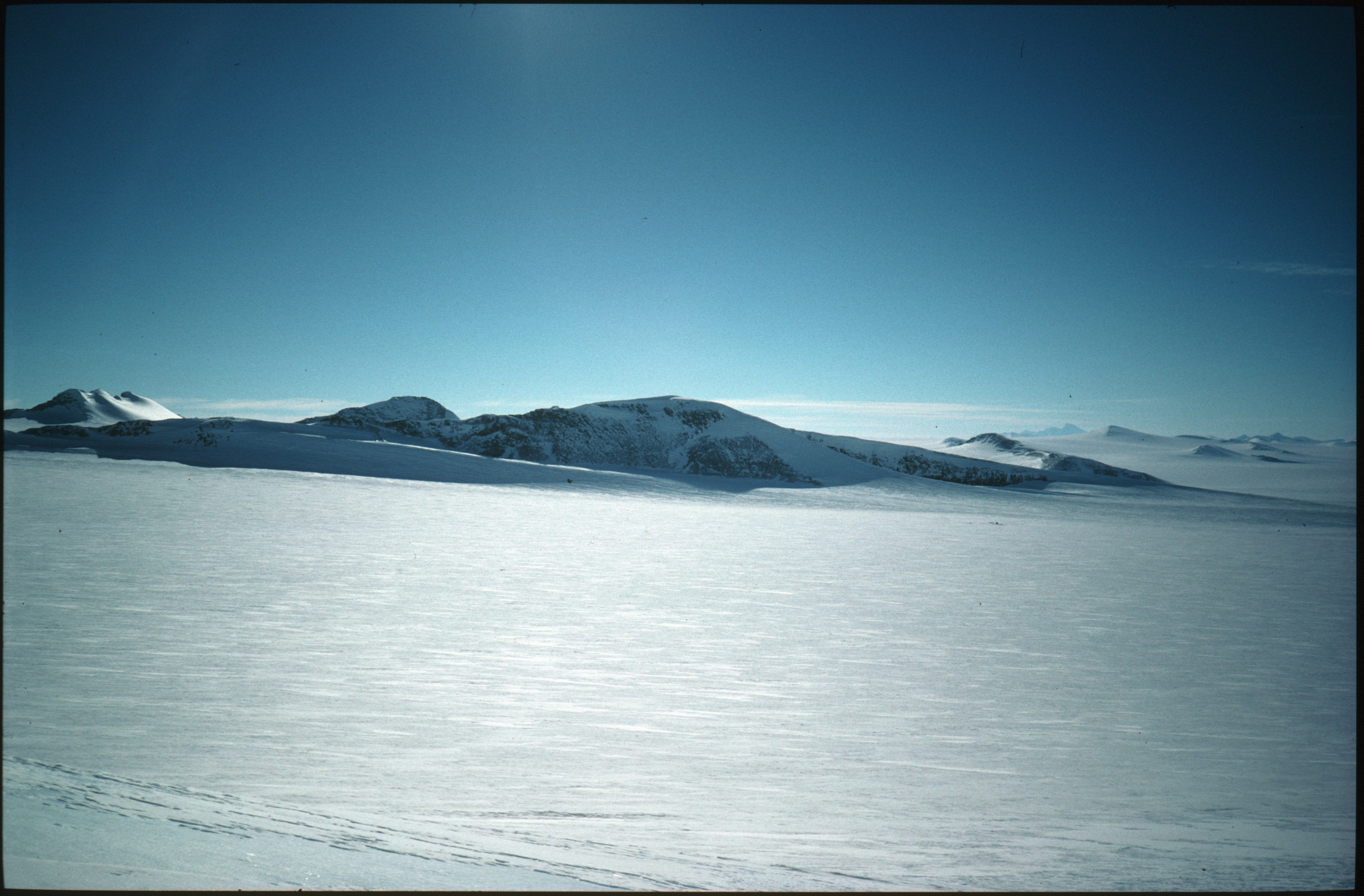 NW DuToit Mtns quartz tonalite locality